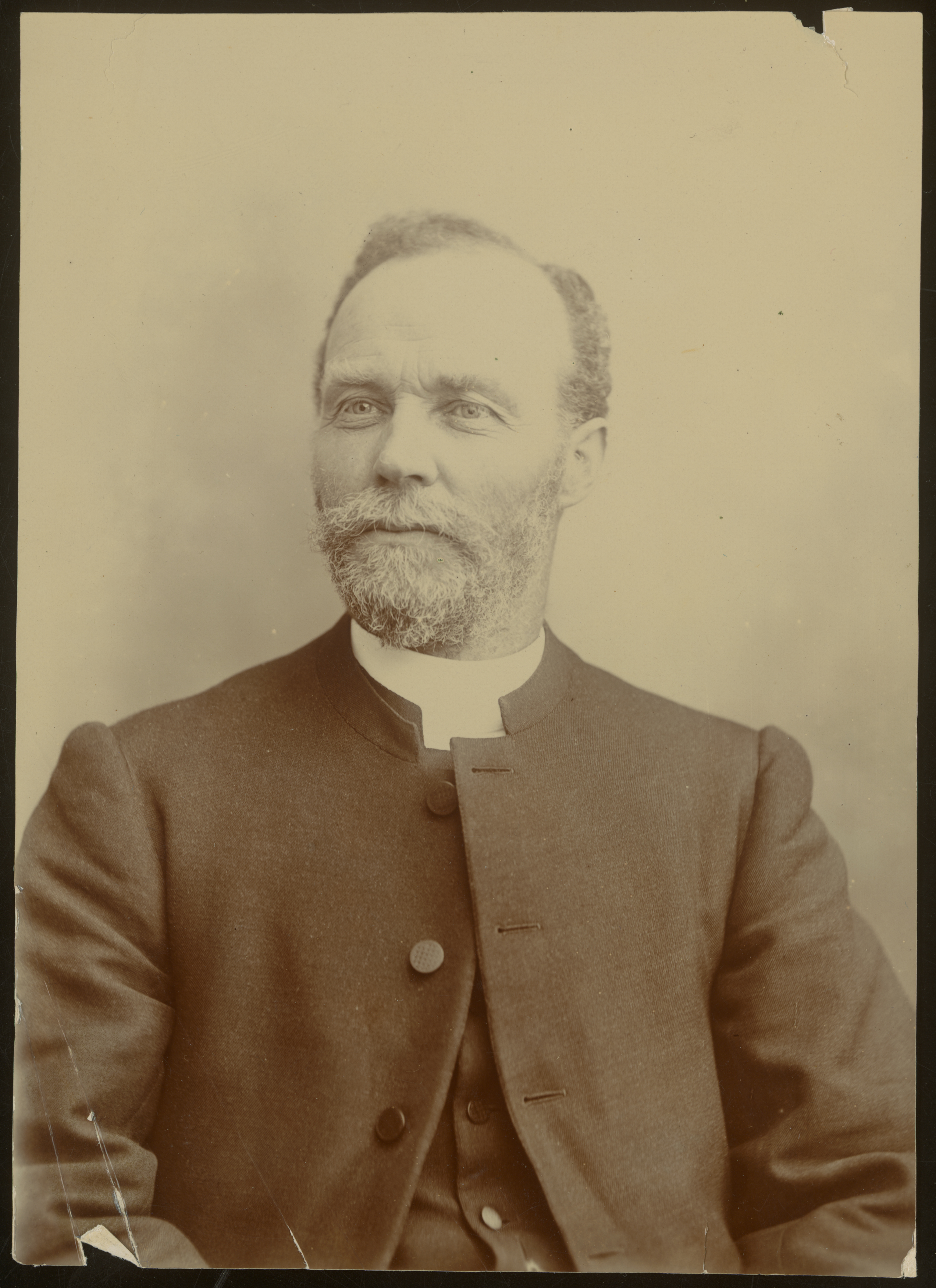 Presbyterian Research Centre Reference Number P-A1_1-1